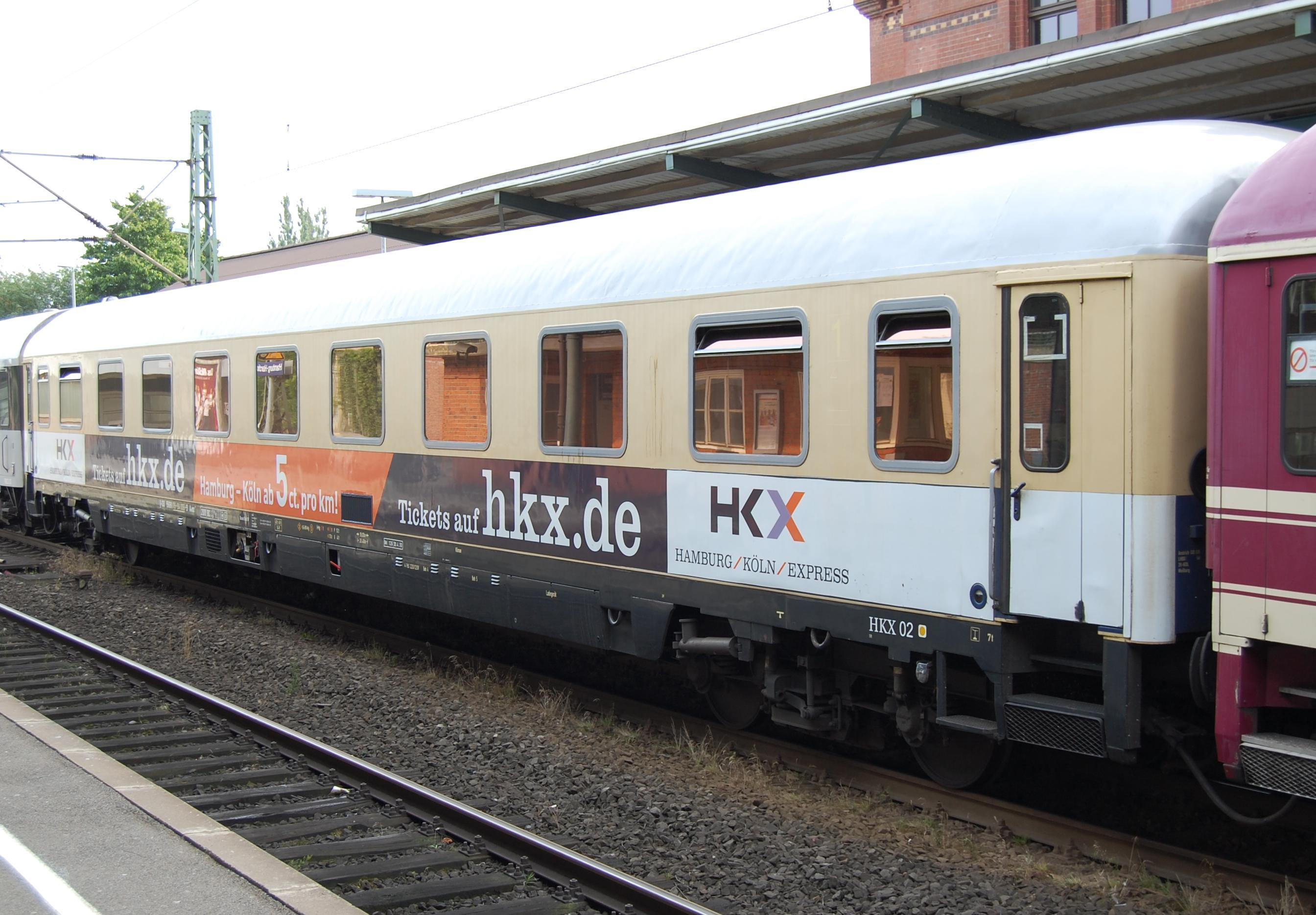 A first class compartment coach, owned by Centralbahn AG. The coach was part of a Hamburg-Köln-Express train (HKX 1804), seen at Hamburg-Harburg station.